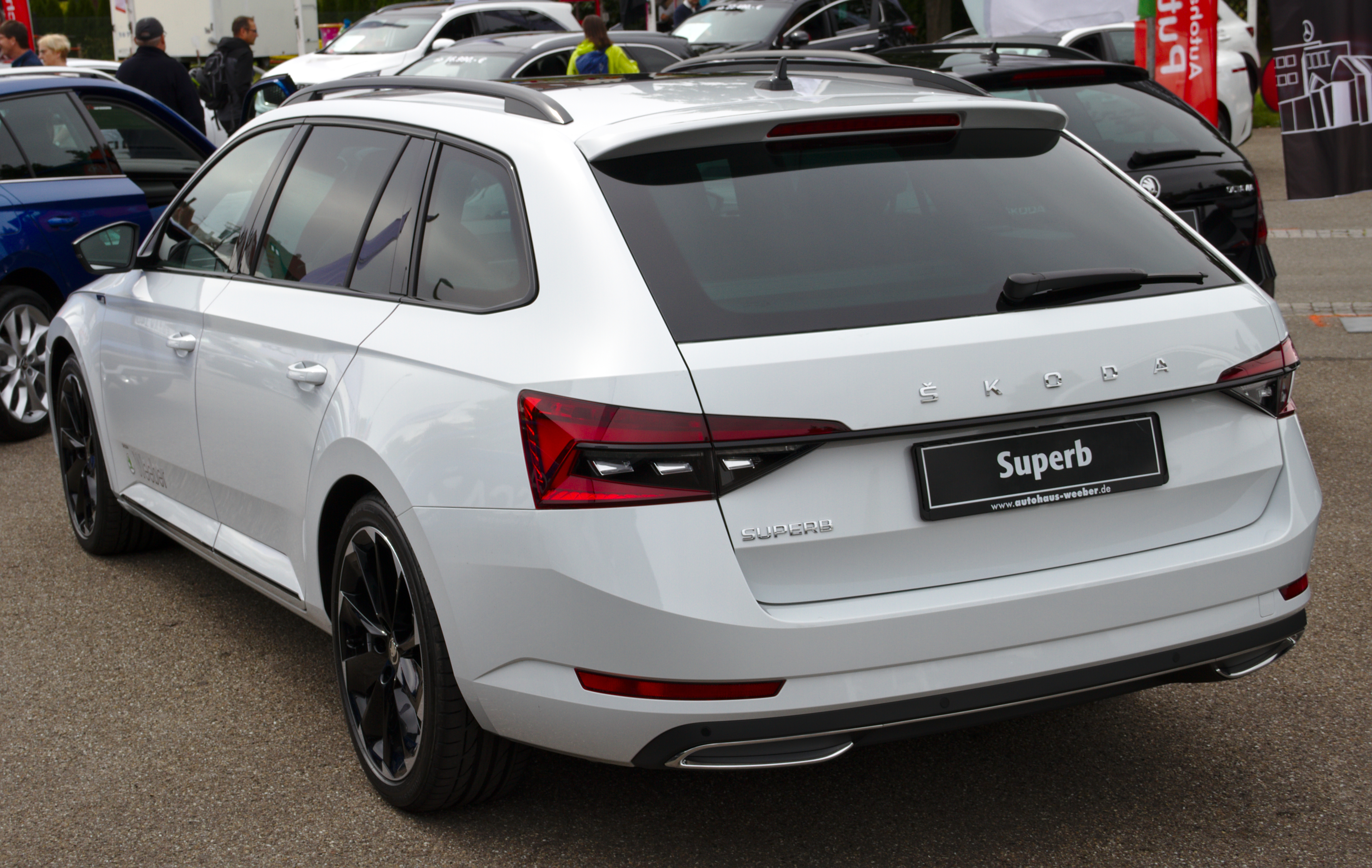 Skoda_Superb_III_Combi at Leonberger Autoschau 2019